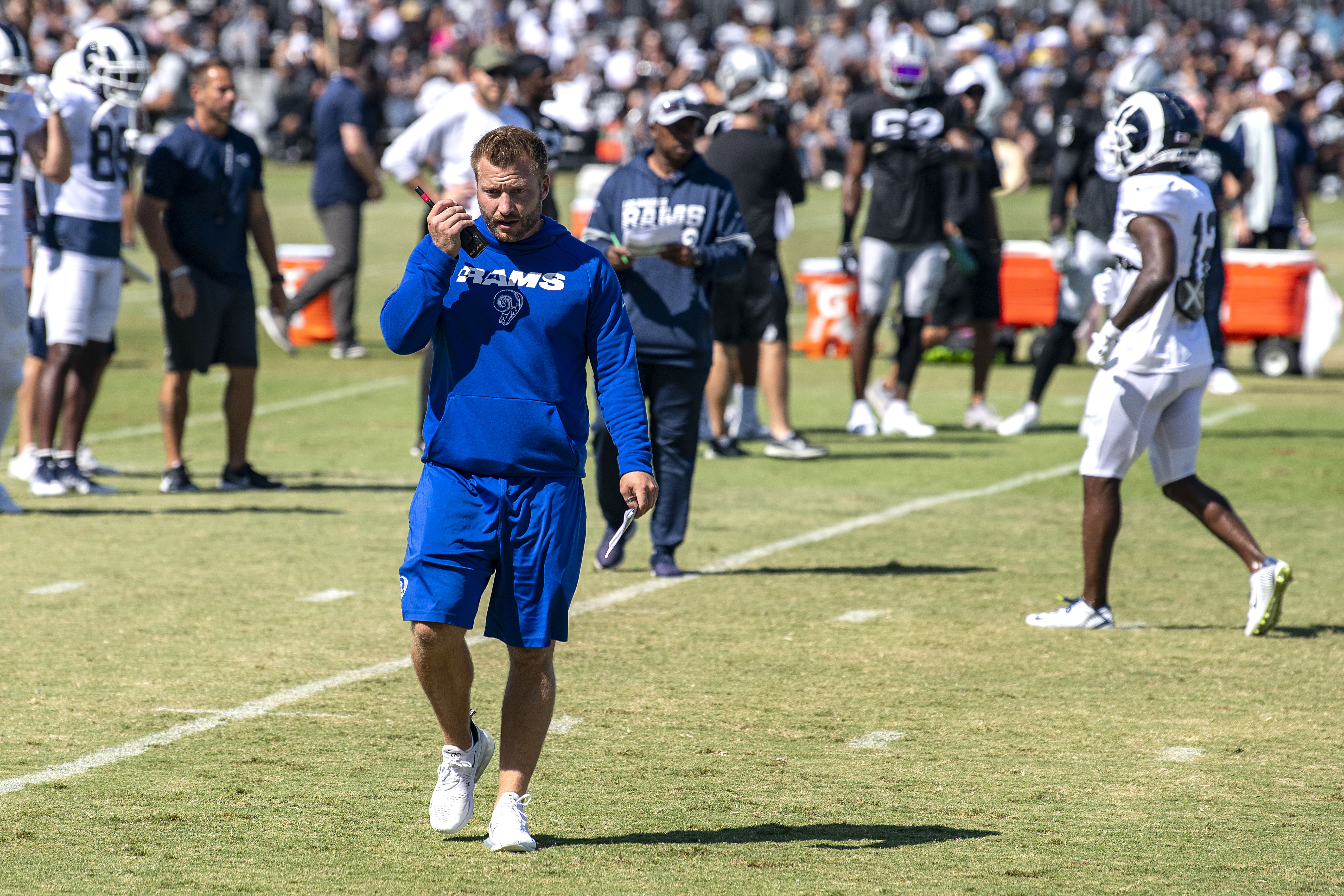 Los Angeles Rams head coach, Sean McVay, at a joint practice with the Oakland Raiders during the 2019 training camp.